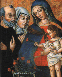 The Madonna delle Libere by Pier Paolo Agabiti (1470-1540) depicts Blessed Simon of Cascia (1285-1348) and Saint Rita of Cascia (1381-1457) with Mary and the child Jesus, Monastery of Saint Rita of Cascia, Italy.